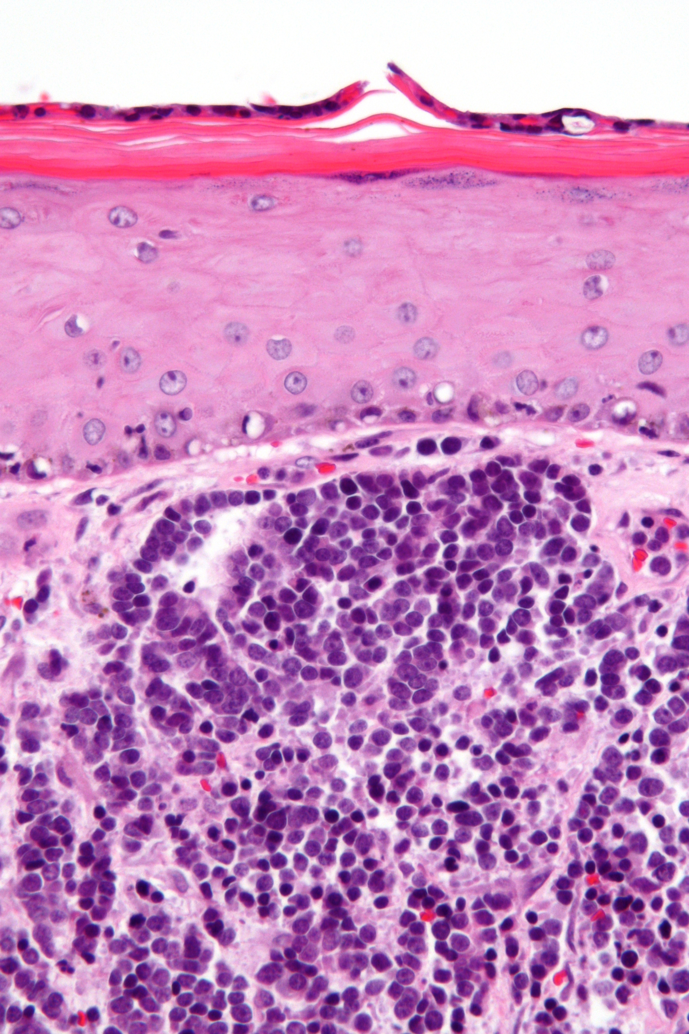 Very high magnification micrograph of Merkel cell carcinoma, abbreviated MCC. H&E stain. MCCs are aggressive neuroendocrine tumour of the skin. They can be considered a small round cell tumour. Most MCCs are caused by a virus aptly named Merkel cell polyomavirus.[1] Related images Intermed. mag. High mag. Very high mag. Very high mag. (cropped) References ↑ (Feb 2008). "Clonal integration of a polyomavirus in human Merkel cell carcinoma.". Science 319 (5866): 1096-100.